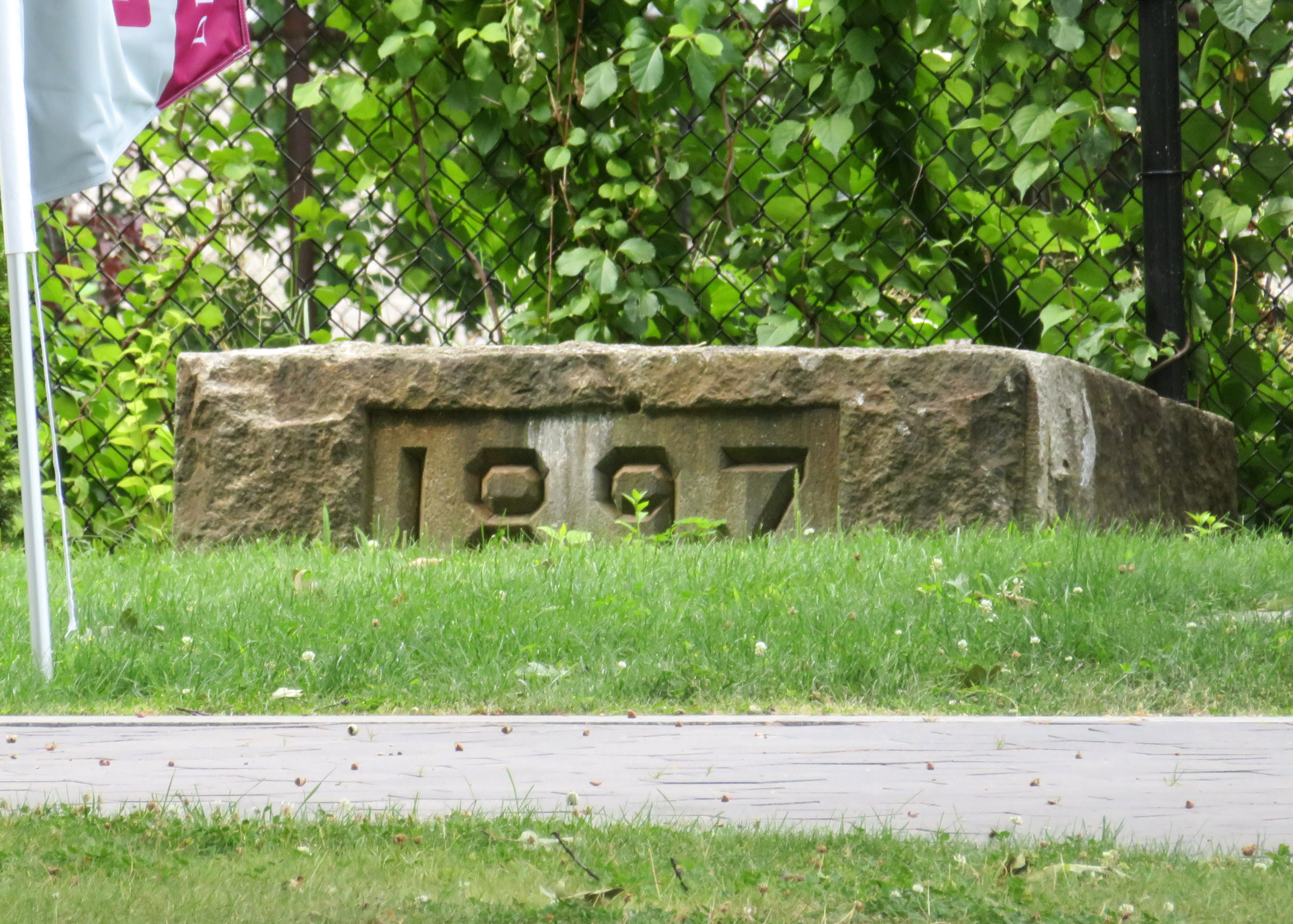 1897 foundation stone of the Boston & Providence Railroad (Southwest Corridor) viaduct, seen in Roxbury Heritage State Park in July 2019